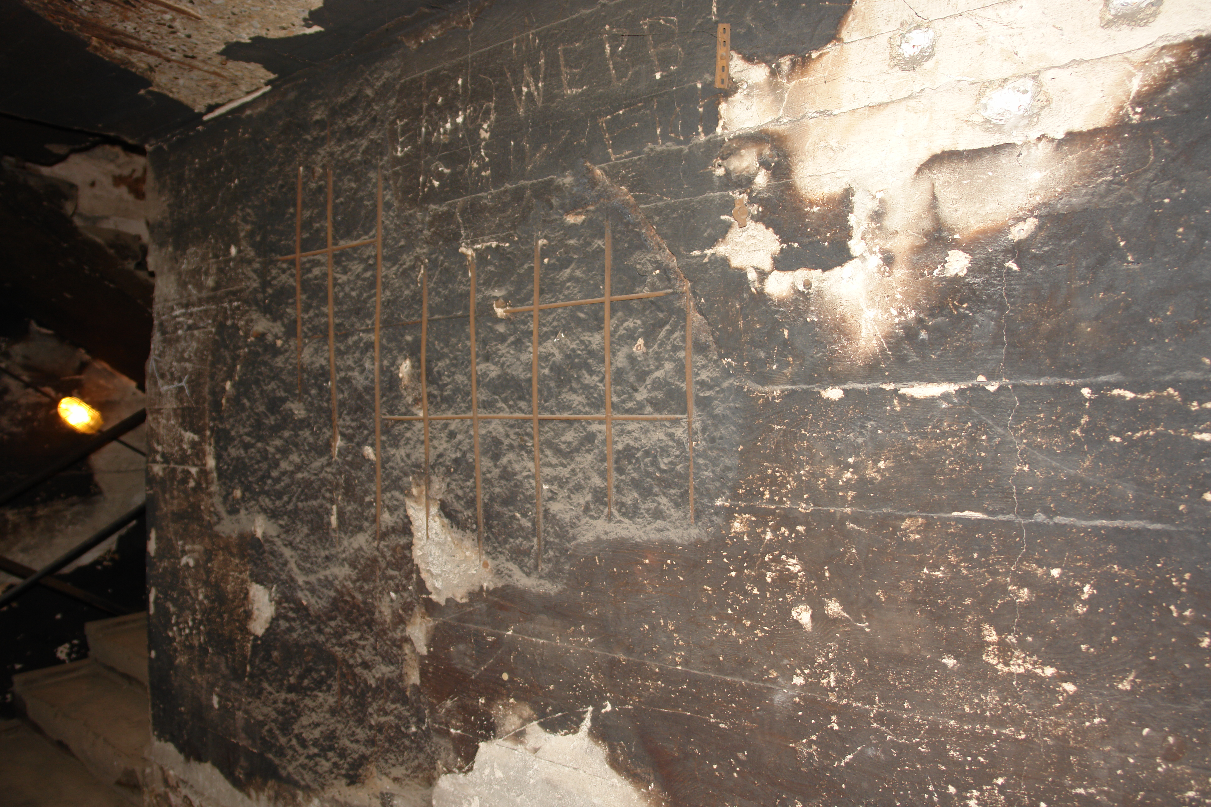 destroyed Underground Archive at Tempelhof Airport (Berlin)